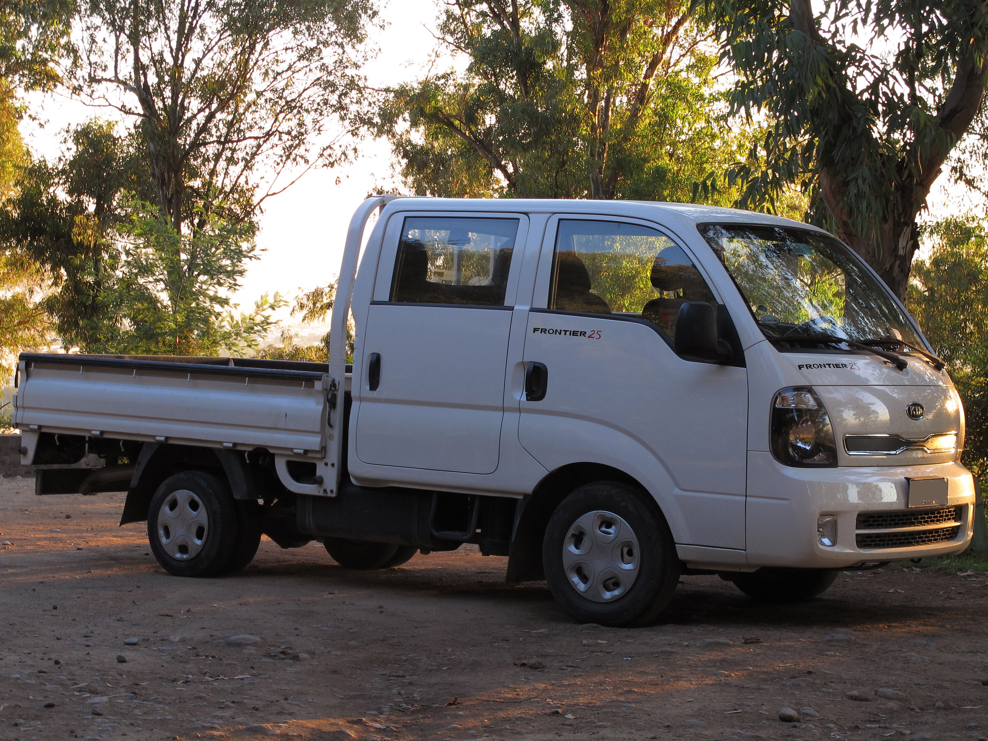 Kia Frontier 2.5d Crew Cab 2013